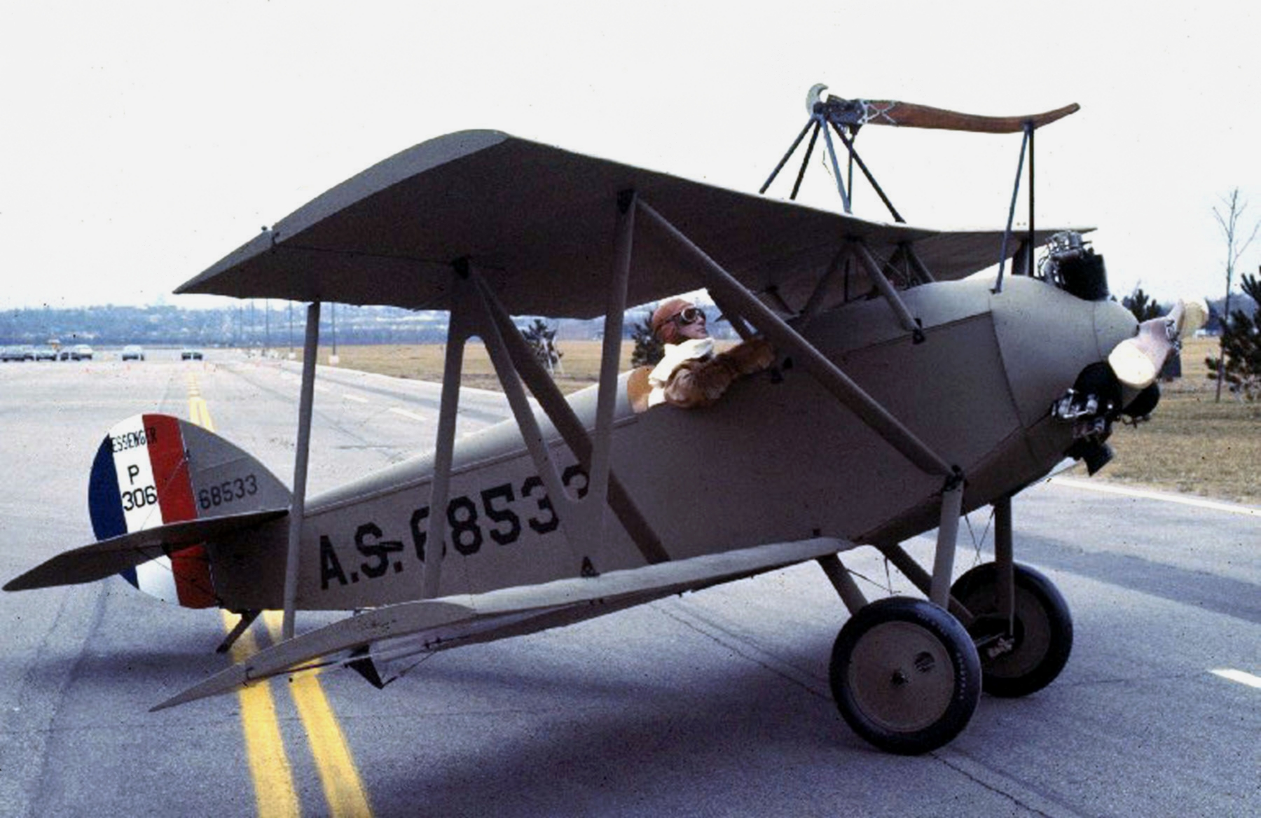 A U.S. Army Air Corps Verville-Sperry M-1 Messenger (s/n AS 68533) at the National Museum of the United States Air Force.